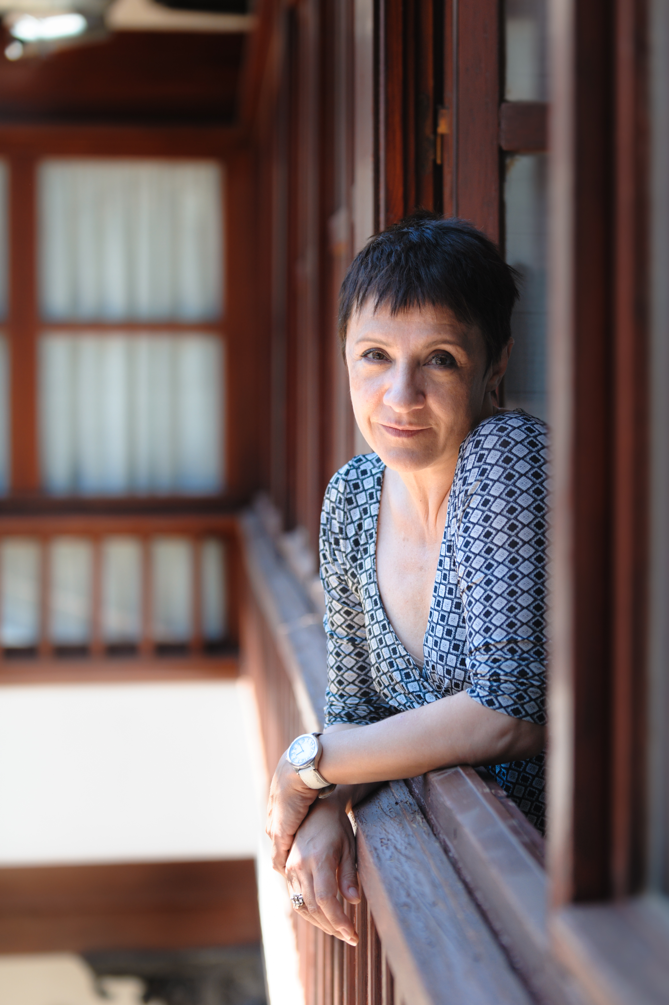 Blanca Portillo antes de la rueda de prensa de presentación de La vida es sueño Festival Internacional de Teatro Clásico de Almagro. Foto: Guillermo Casas